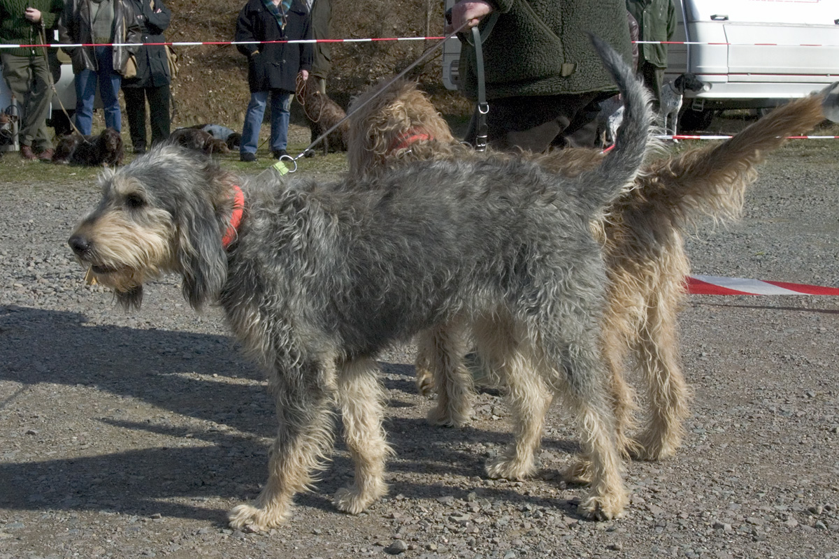 This dog is a french Griffon Nivernais.